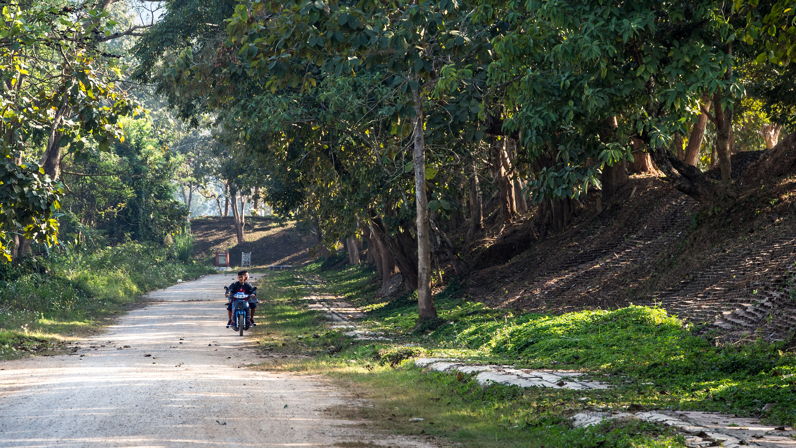 Chiang Saen's city walls are still largely intact.